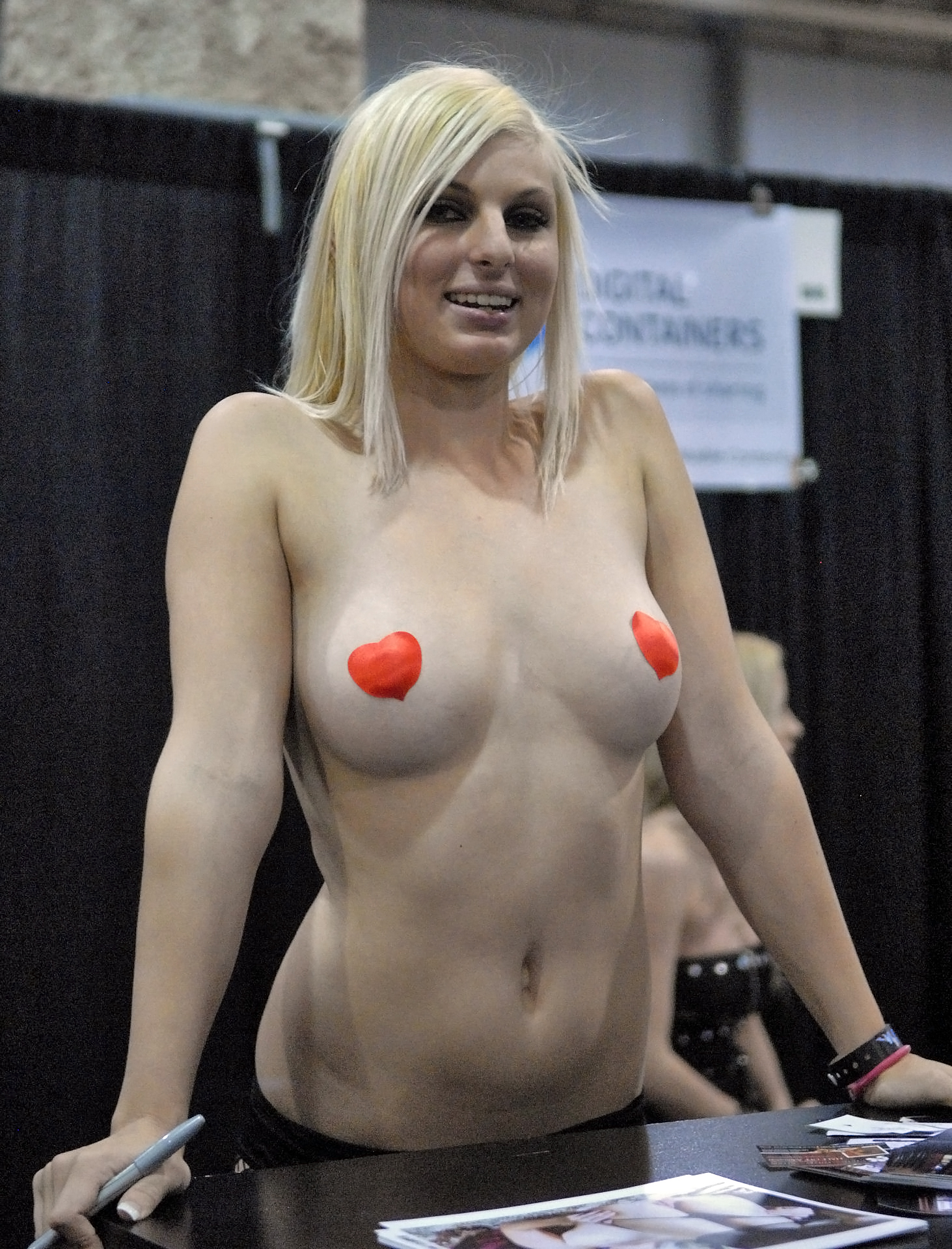 Charlize Danay @ AVN Adult Entertainment Expo 2010